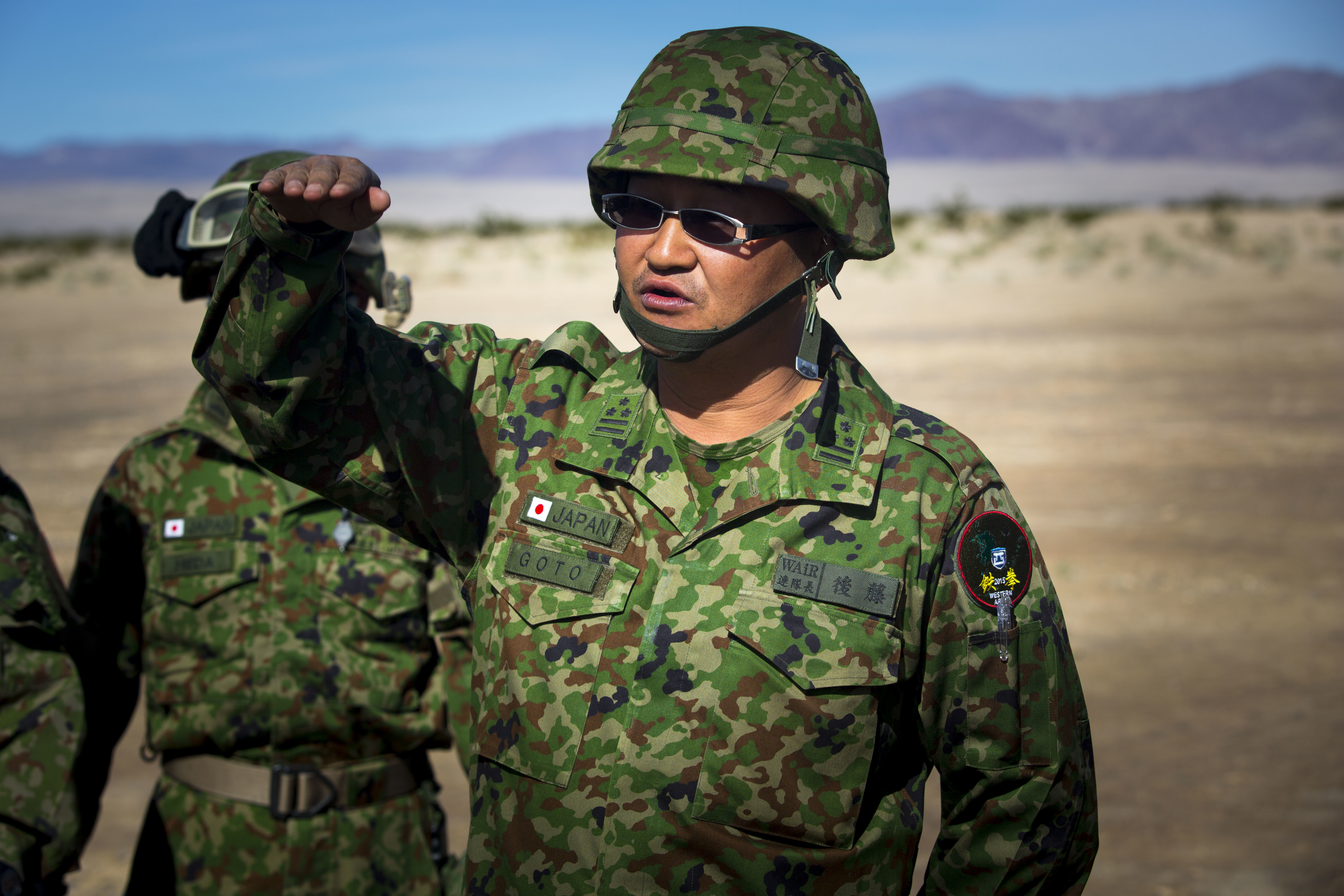 Japan Ground Self-Defense Force Col. Yoshiyuki Goto, commanding officer of Western Army Infantry Regiment, asks about Marine Corps air delivery capabilities during Helicopter Support Team (HST) training in support of Integrated Training Exercise (ITX) 2-15 at Sandhill Landing Zone aboard Camp Wilson, Marine Corps Air Ground Combat Center Twentynine Palms, Calif., Feb. 11, 2015. ITX 2-15, being executed by Special Purpose Marine Air-Ground Task Force 4 (SPMAGTF-4), is being conducted to enhance the integration and warfighting capability from all elements of the MAGTF.